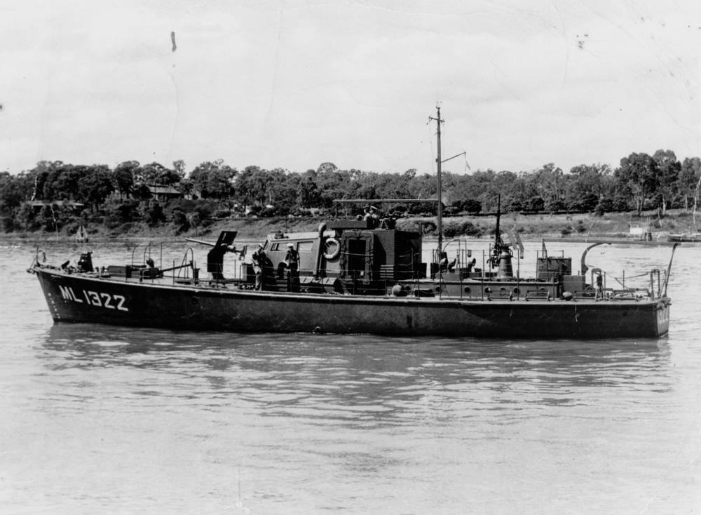 Royal Australian Naval ship ML 1322 at Colmslie Naval Base, Brisbane, ca. 1944. Australian Naval ship commissioned March 1944 in Hobart, Tasmania. Length 80 feet, beam 12 feet, draught 5 feet 6 inches. Carried 2 officers and 9 Ships Co. Armament 1 x 3 pdr on forecastle, 1 orlikon Quarter Section, 2 twin gas operated Vicker on each wing of the bridge, 8 depth charges. Commanding Officer Lt. E. Trickett R.A.N.R., First Lt. - Sub Lt. C. Wilkinson R.A.N.V.R. (Description supplied with photograph).